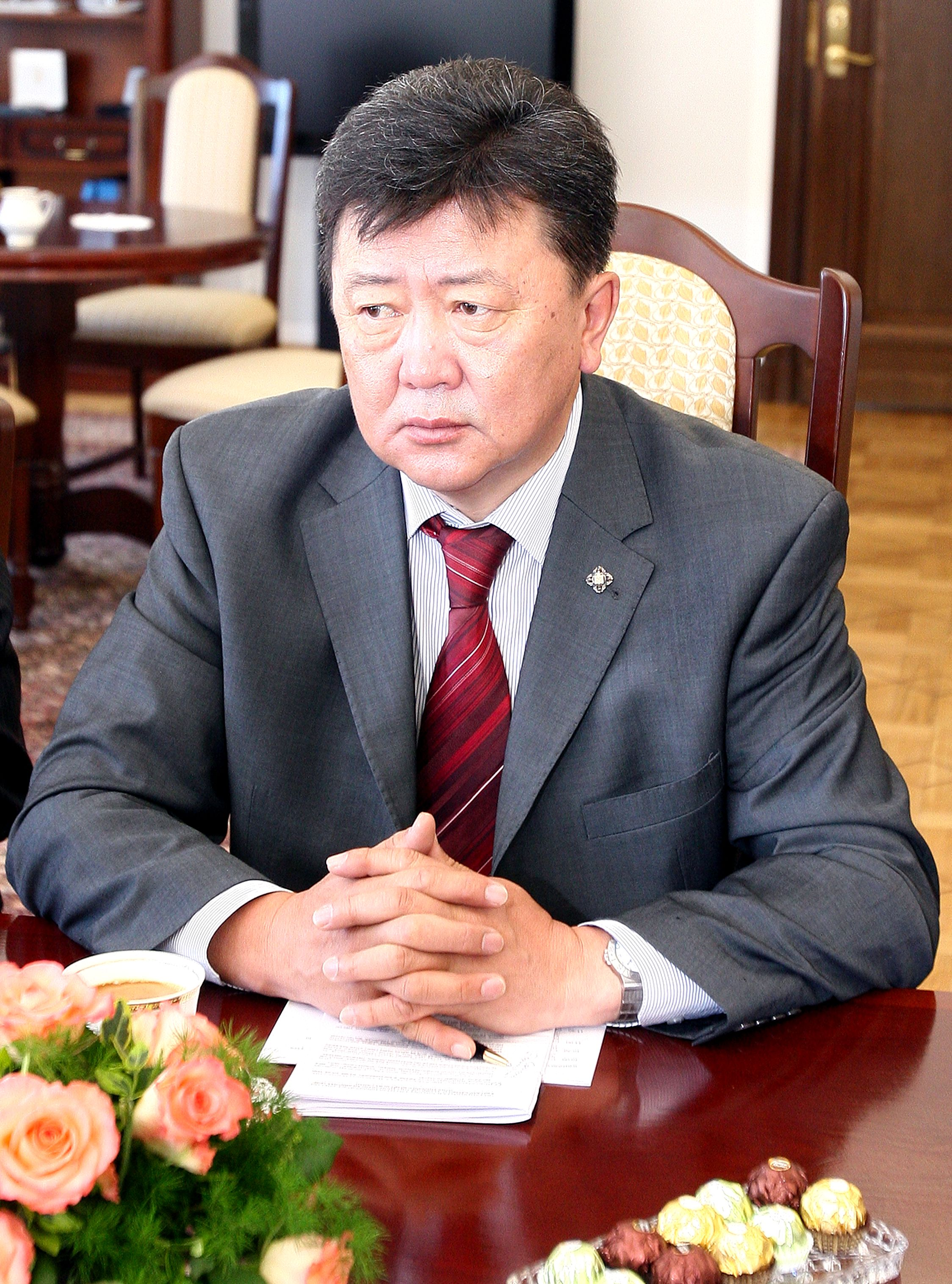 Deputy Chairman of the State Great Khural of Mongolia Nyamaagiin Enkhbold in the Polish Senate